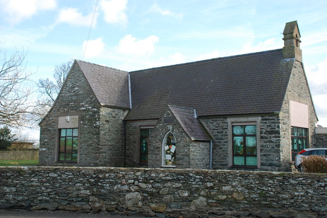 Ysgol Gynradd Llanddeusant Primary School Built in 1847, this small village school opposite the church is, like so many others, under threat of closure.